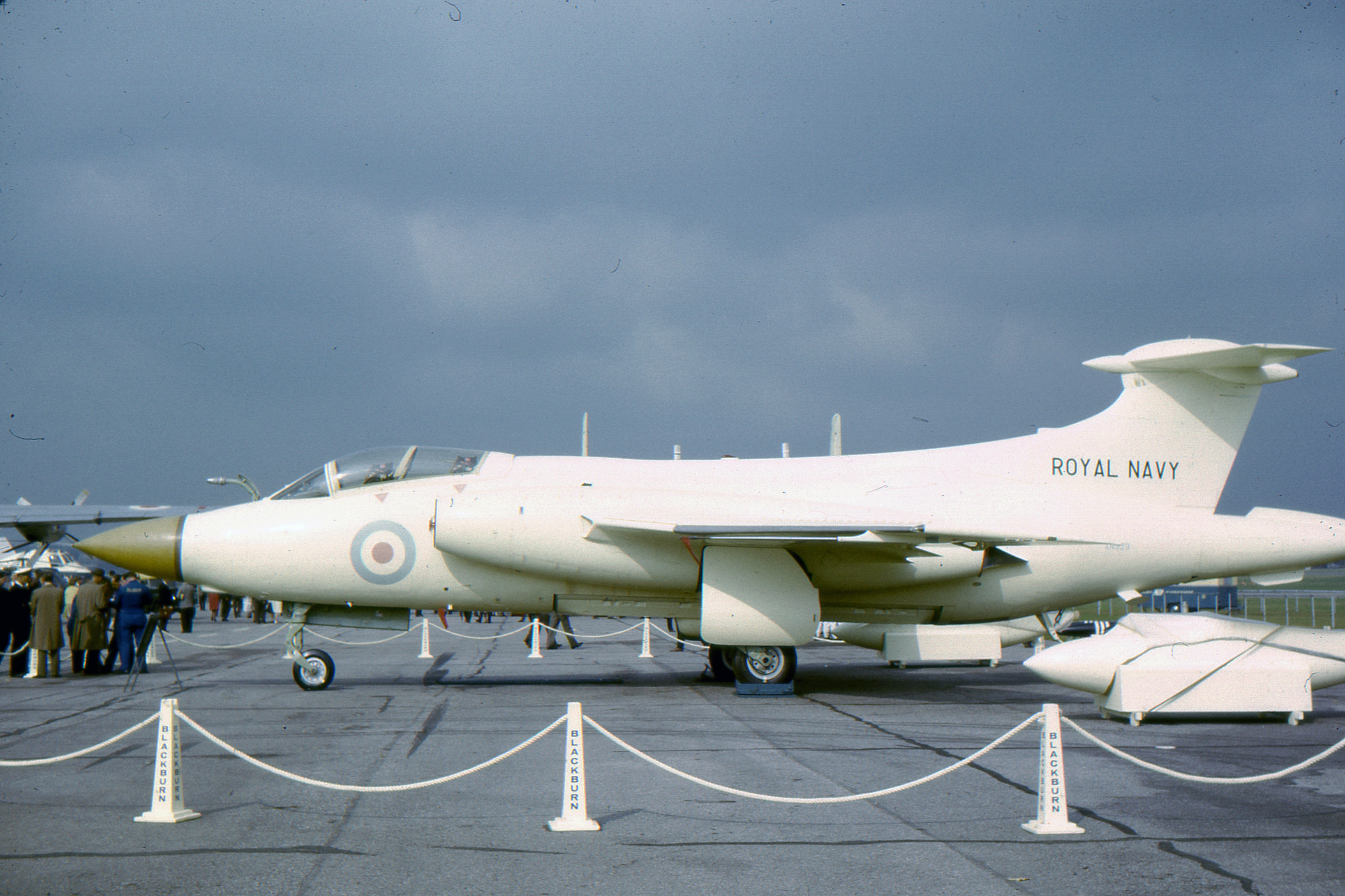 Blackburn Buccaneer S.1 XN929 at the SBAC show Farnborough 8 September 1962.